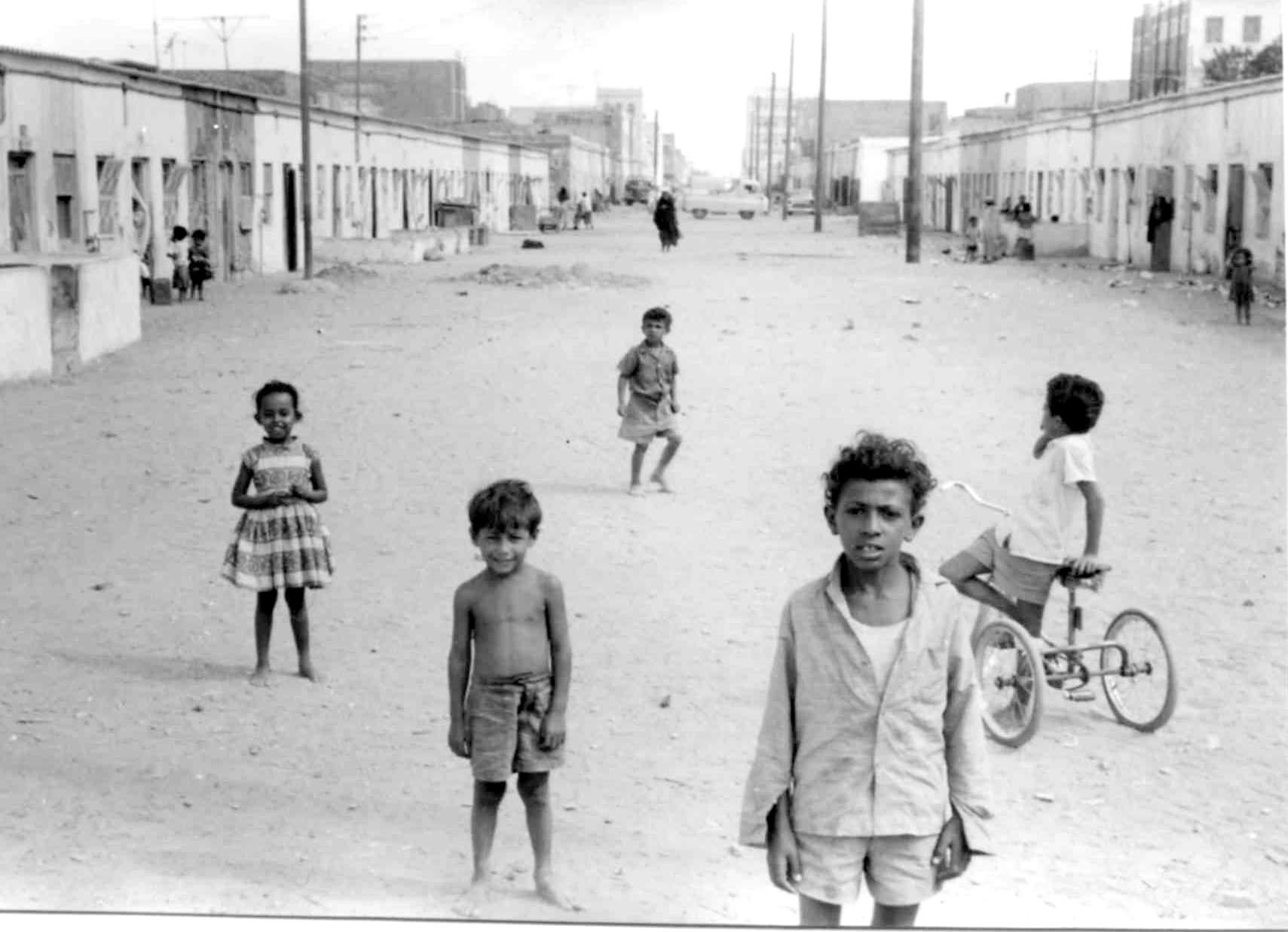 Children being curious because we had cordoned off this end of their street [ Street 7 ] so we could search for a buried weapons cache. Almost all of them wanted to try and speak English, which was another reason why they'd approach us.